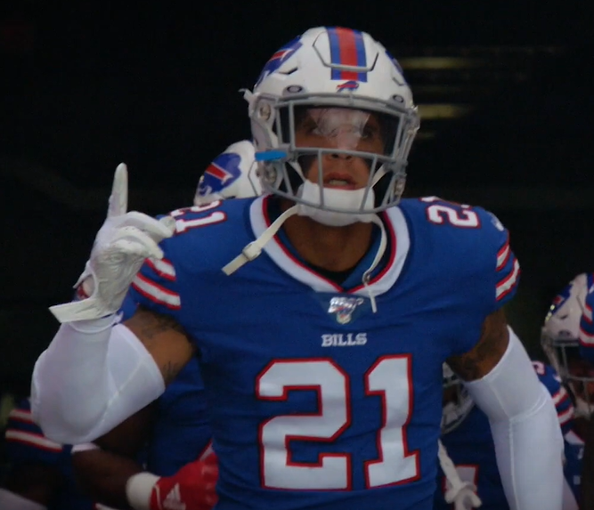 Jordan Poyer 2019. Image from video Titans Mic'd Up vs. Bills (Week 5) | Sounds of the Game, ~ 00:10